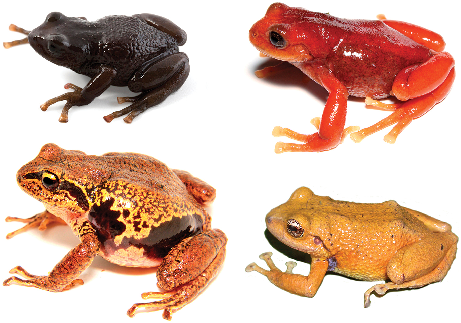 Comparison of Pristimantis erythros (top right) with Pristimantis orcesi (top left), Pristimantis pycnodermis (below left), and Pristimantis loujosti (below right).